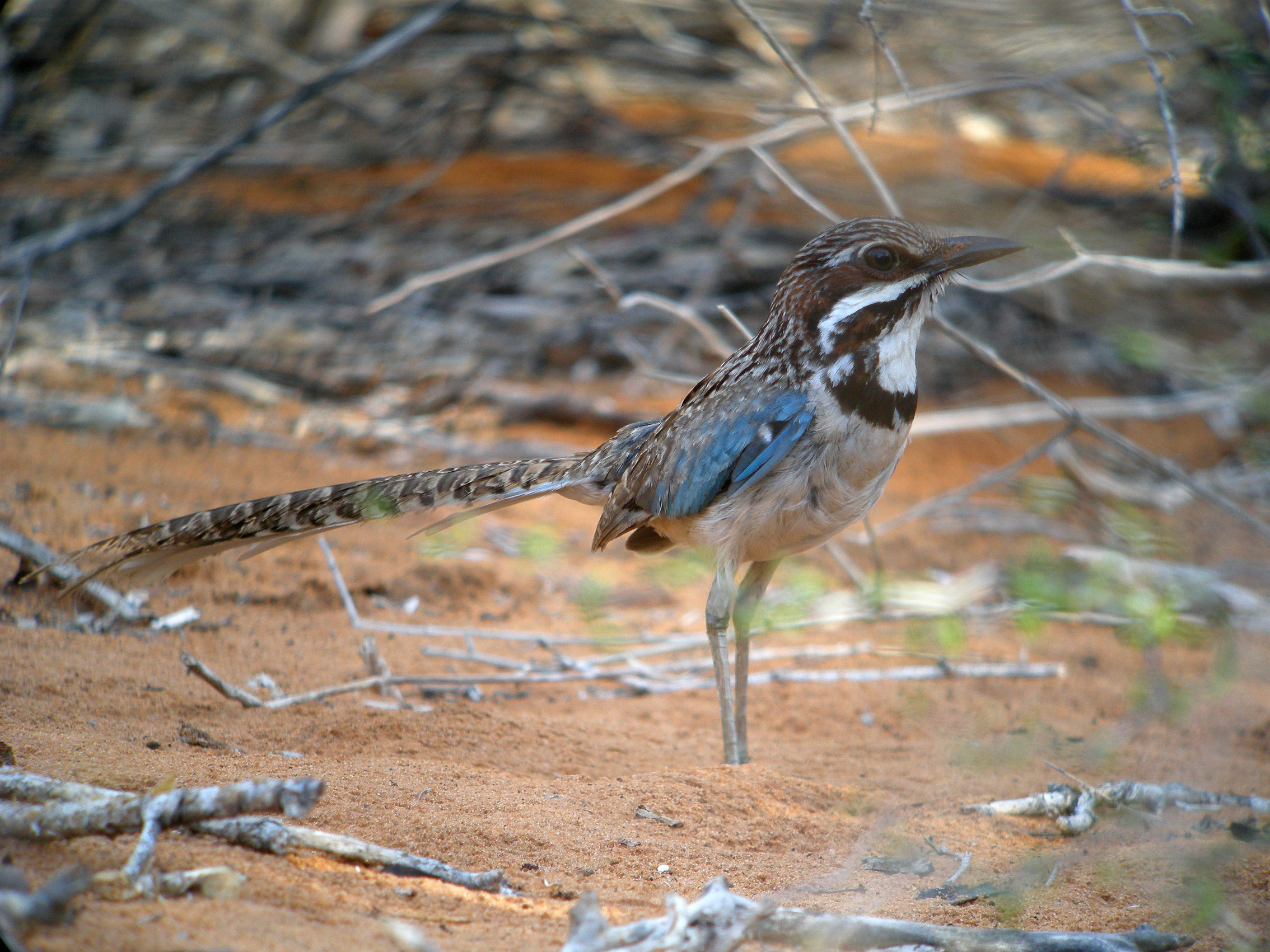 Long-tailed Ground-roller, Mangily, Madagascar Swarowski 80 HD 30 X, Coolpix P5100 (Adapter DCB)